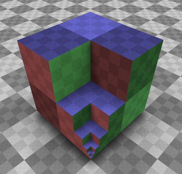 Sauer subdivision.